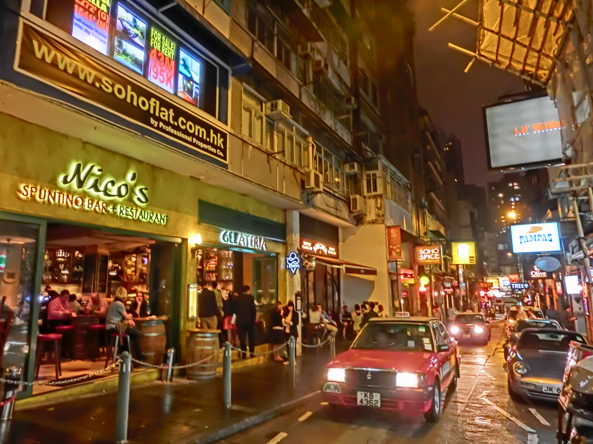 中環蘇豪區, night in Central Soho, Hong Kong